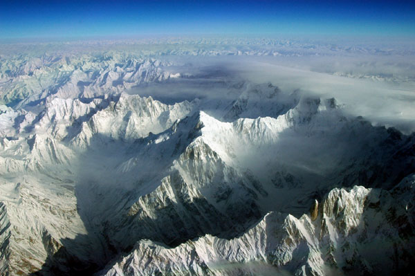 Aerial photo of part of the Batura Muztagh in Pakistan, from the southeast. Sangemarmar in center of photo. Muchuhar Glacier on left, leading up to Hacindar Chhish. Batura Wall and Pasu Sar in clouds in center right. The notable rock spire at the bottom right is Bublimotin.